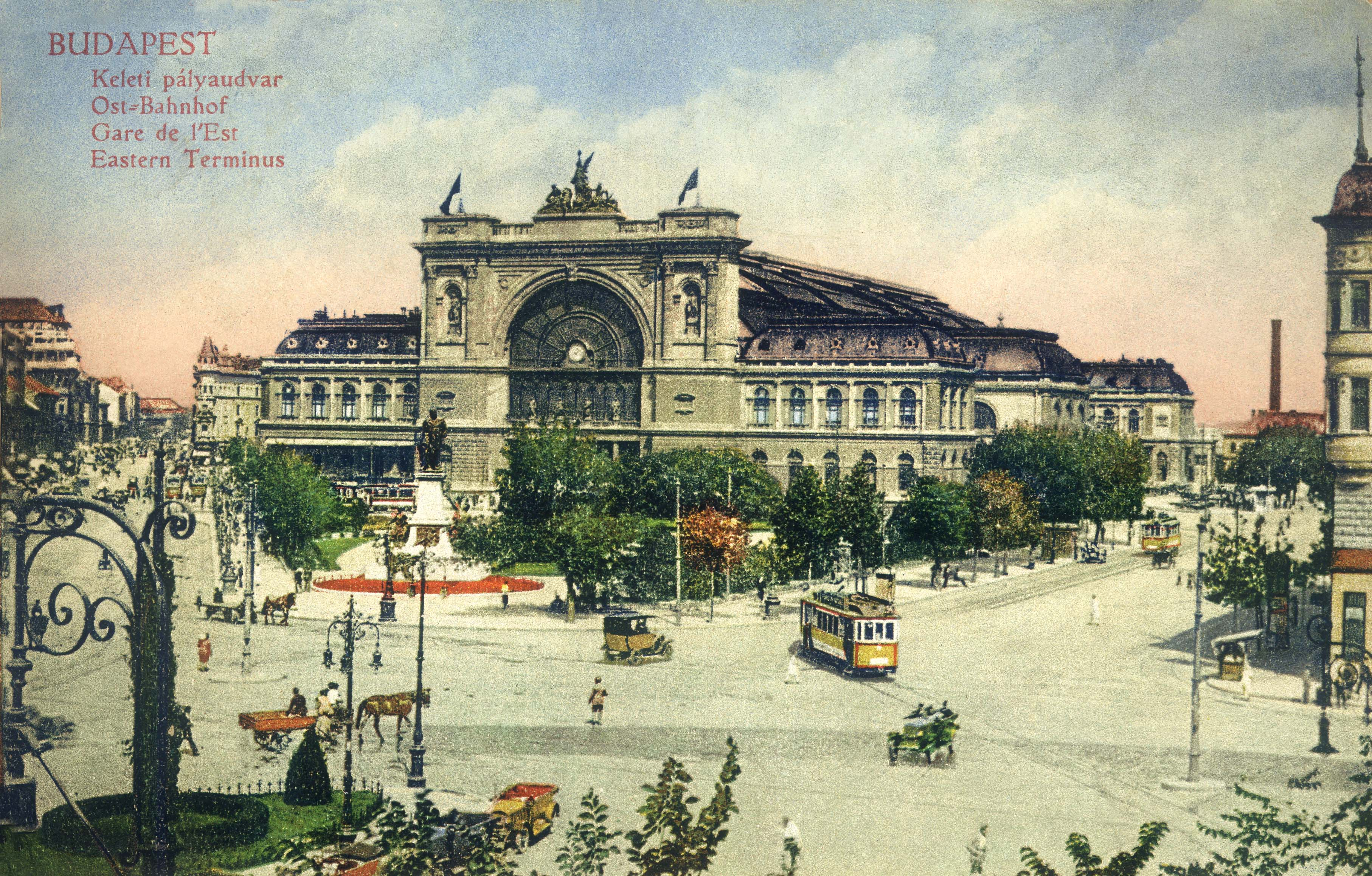 Budapest: Eastern Railway Station / Keleti pályaudvar (postcard)